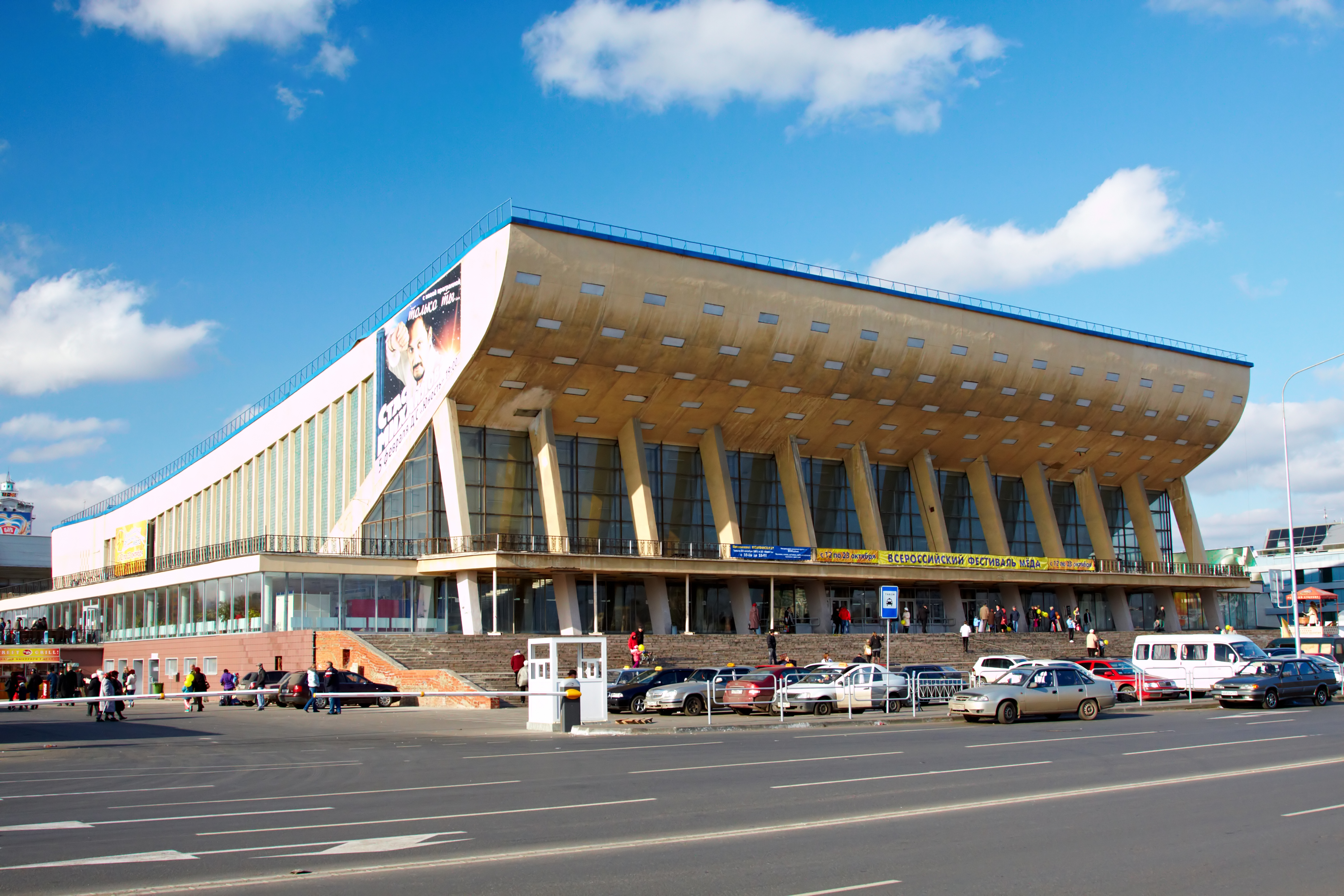 photos of the city of Chelyabinsk, Russia